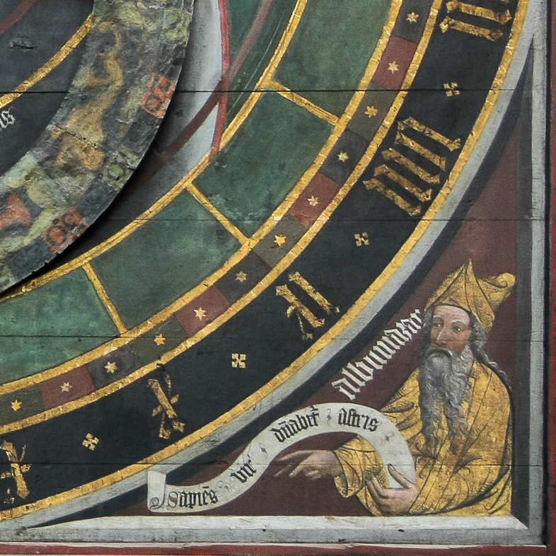 Albumasar on the Astronomic Clock in the Nikolaikirche, Stralsund, Germany